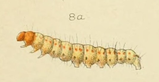 8a.Semiocosma platyptera, now known as Izatha attactella